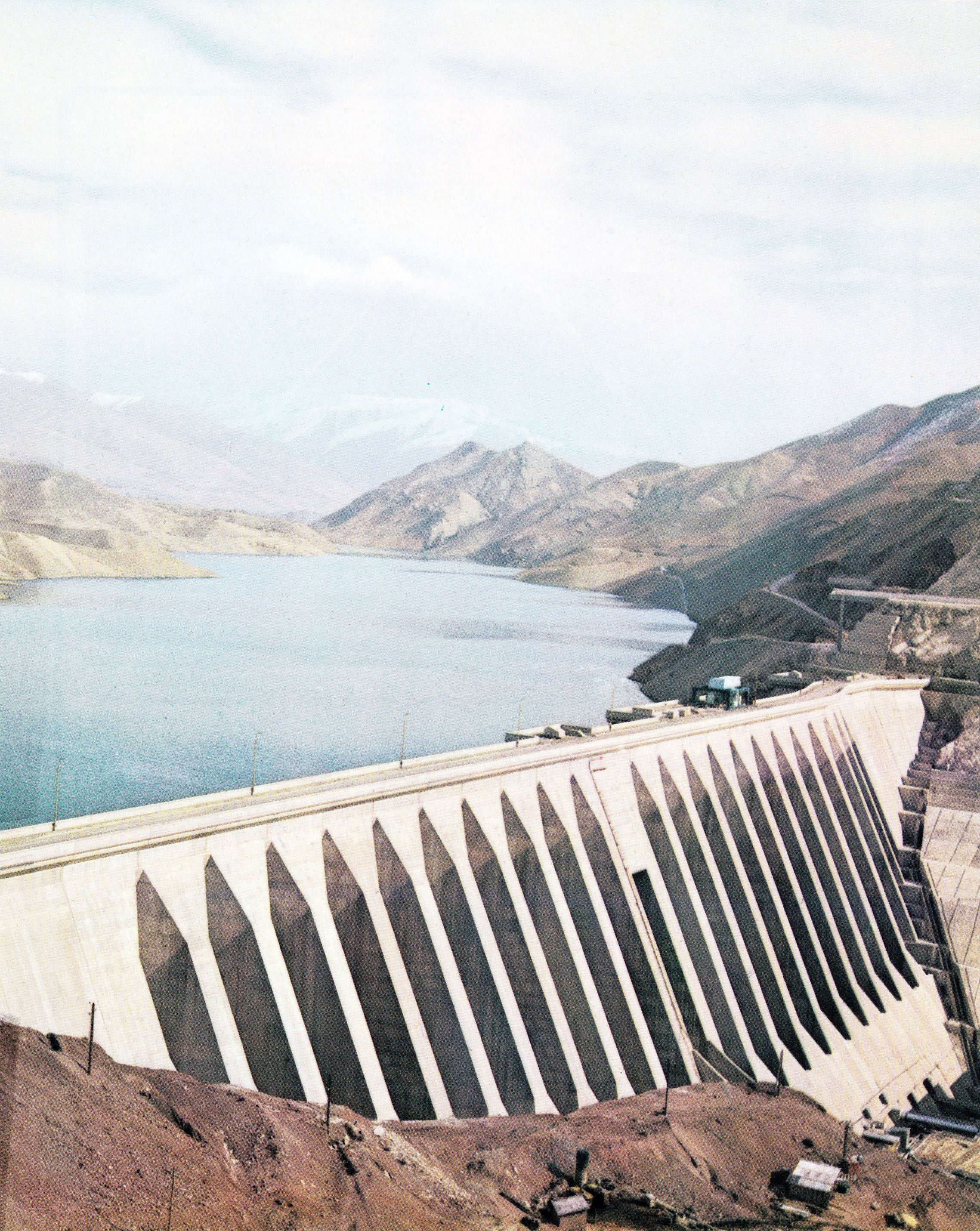 Amir Kabir (Karaj) Dam, Iran